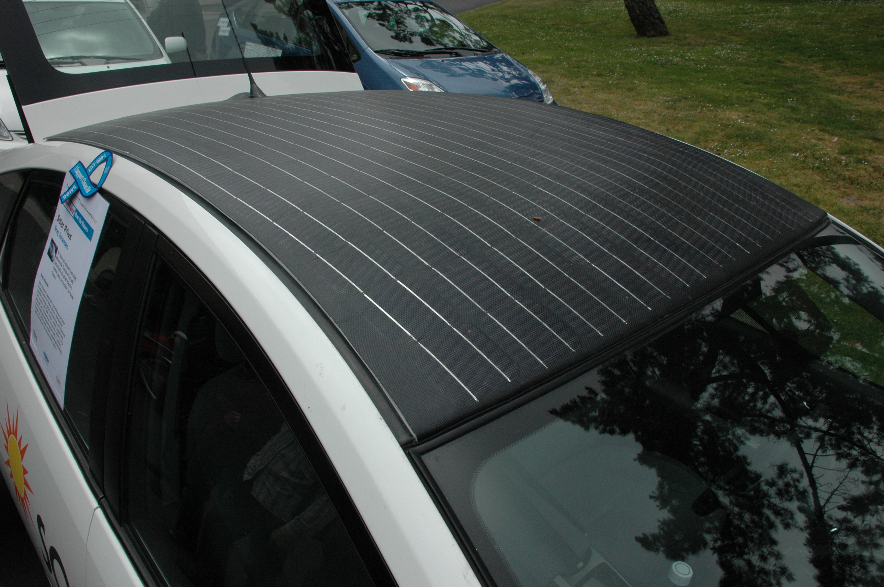 Maker Faire 2008, San Mateo - A solar panel mounted on the roof of a Prius